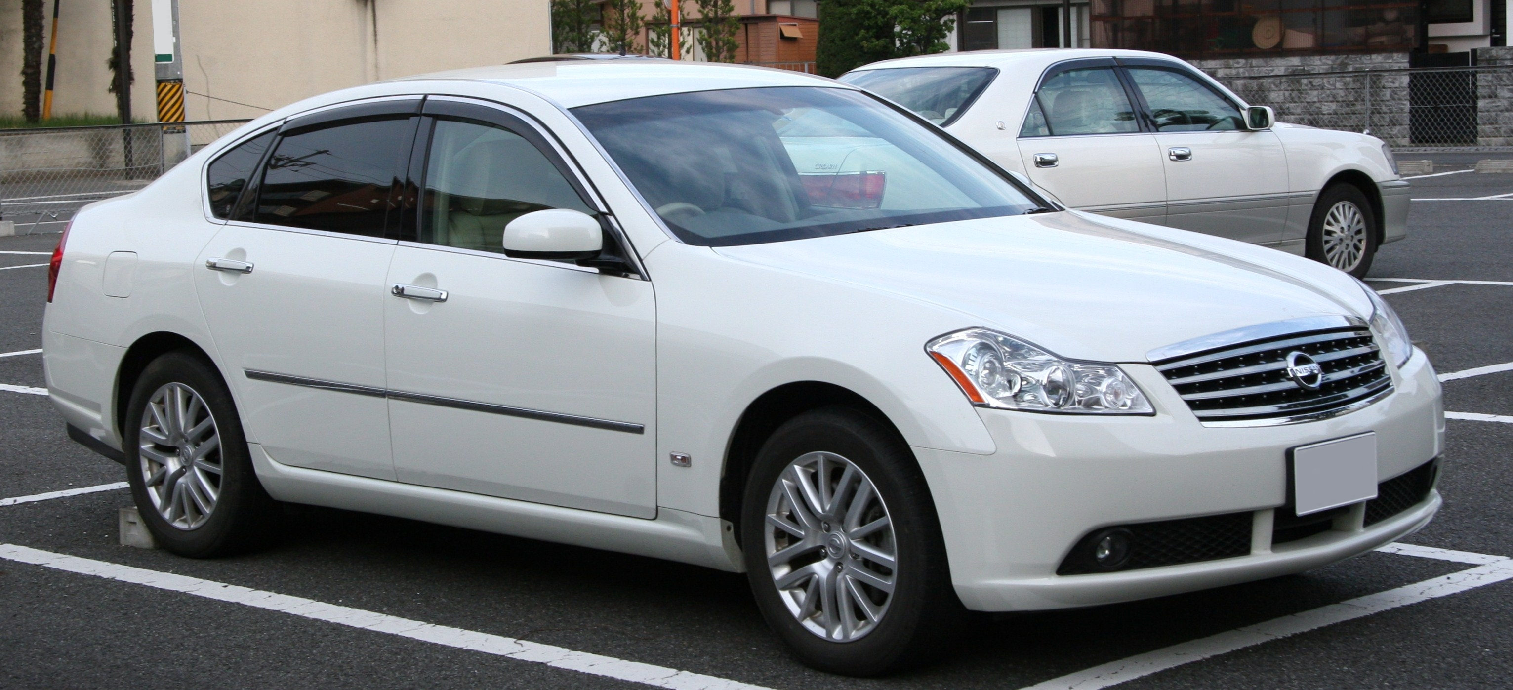 NISSAN FUGA